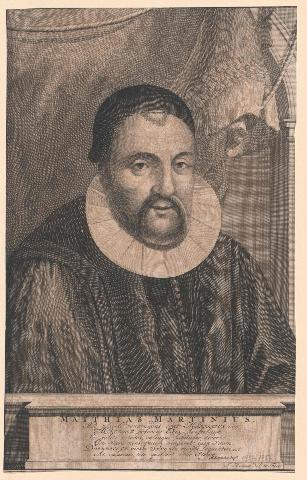 Portrait of Matthias Martinius (1572–1630), German Calvinist theologian.